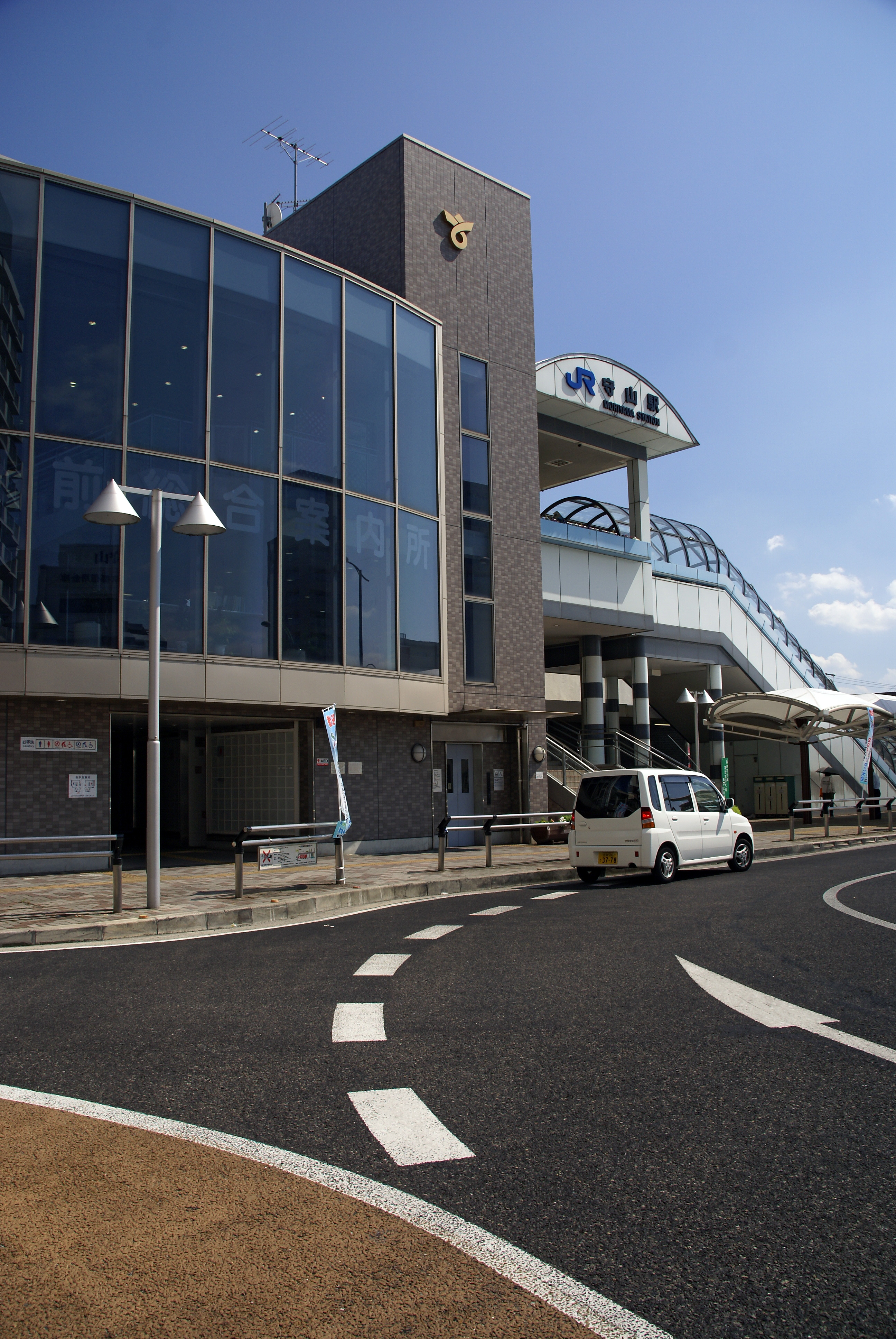 Moriyama Station in Moriyama, Shiga prefecture, Japan